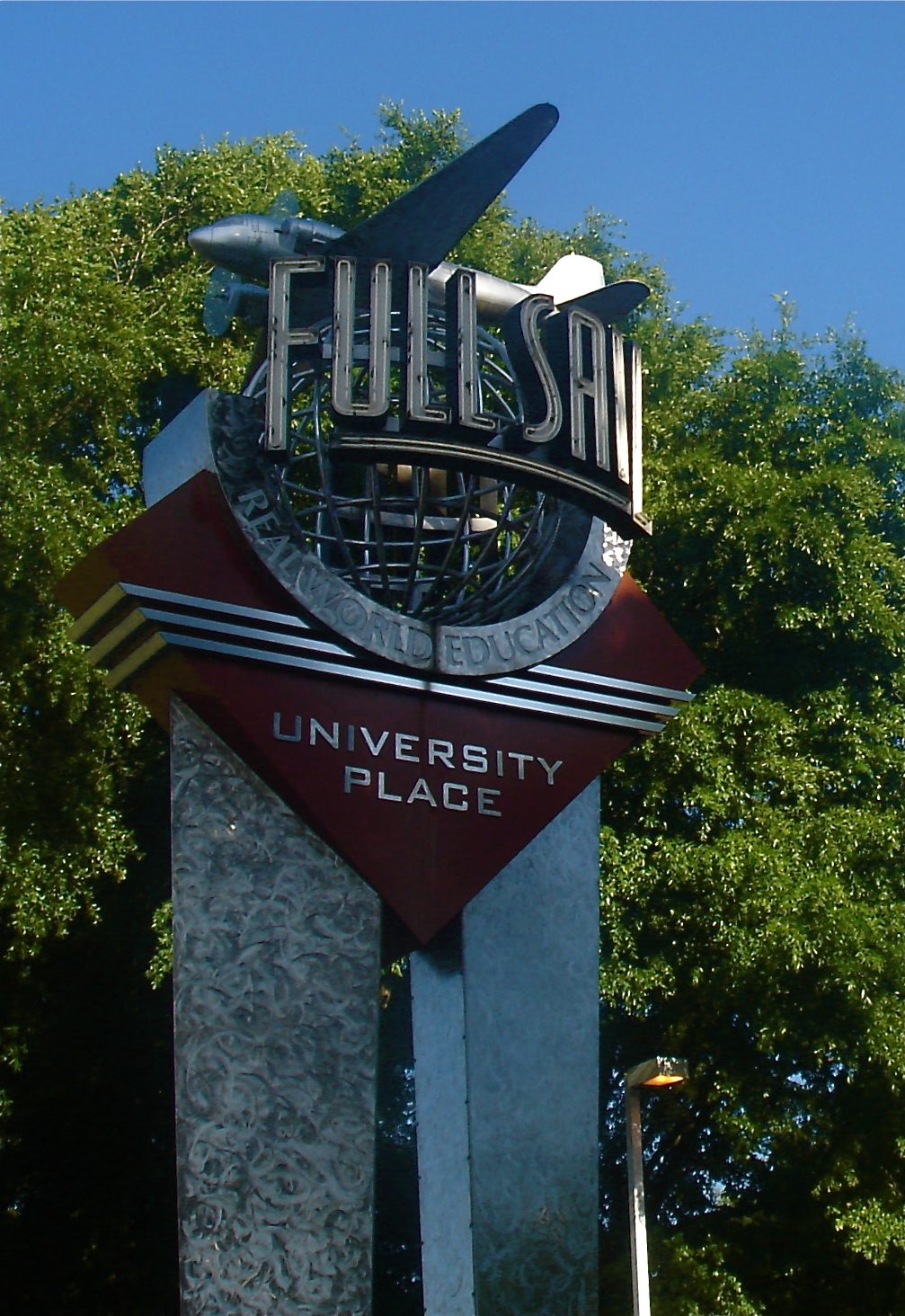 Full sail university sign